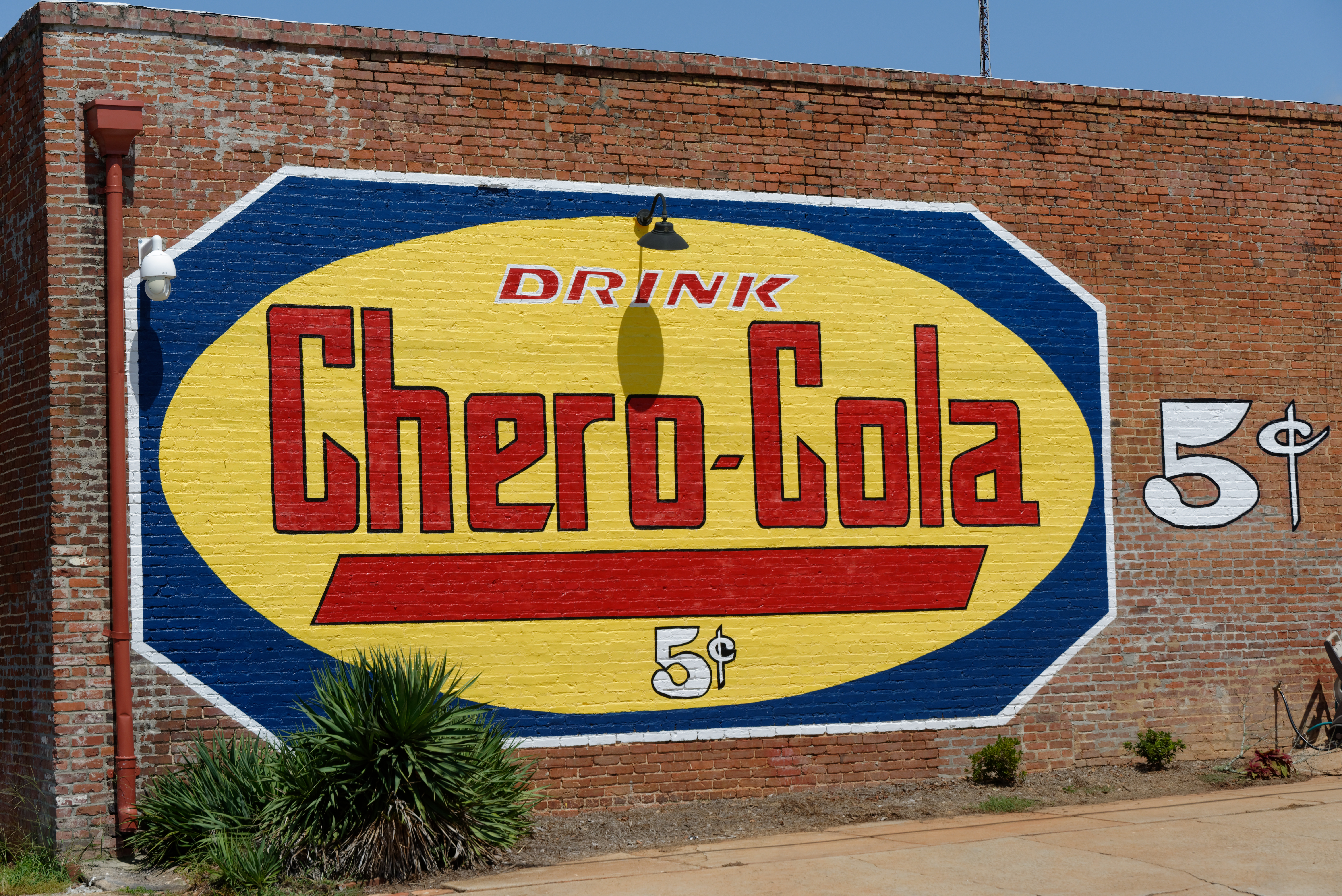 Commercial Historic District in Louisville, Georgia, US